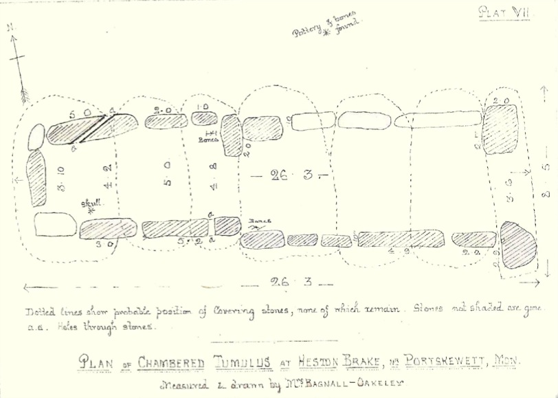 Measured drawing of the chambered tumulus at Heston Brake in Portskewett, Monmouthshire